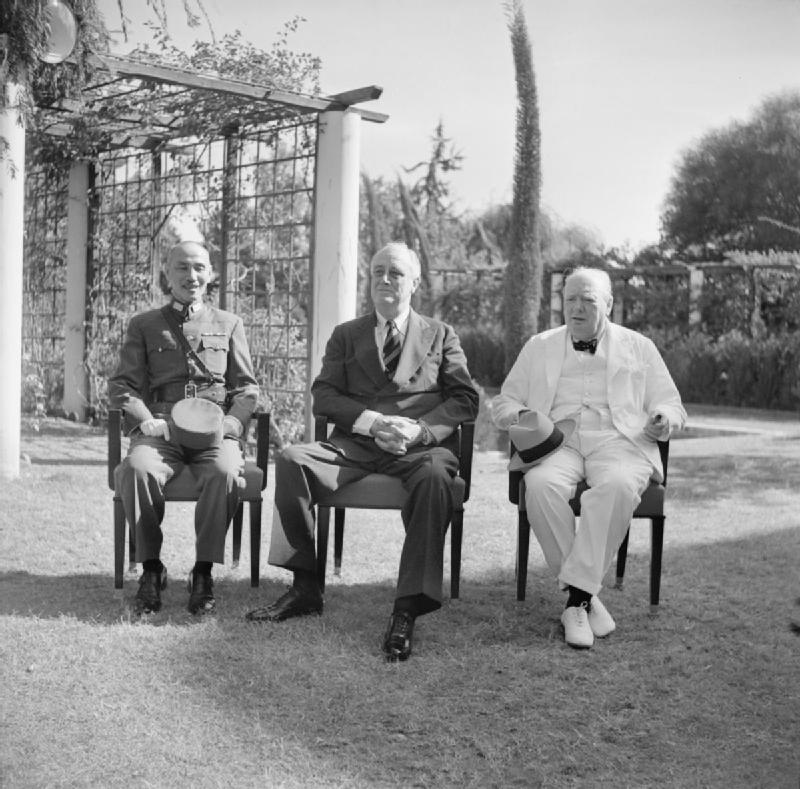 The British Army in North Africa 1943 General Chiang Kai Shek, President Roosevelt and Winston Churchill in the grounds of the President's villa in Cairo during the North Africa Conference, 27 November 1943.